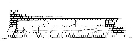 Trilithon_of_Baalbek